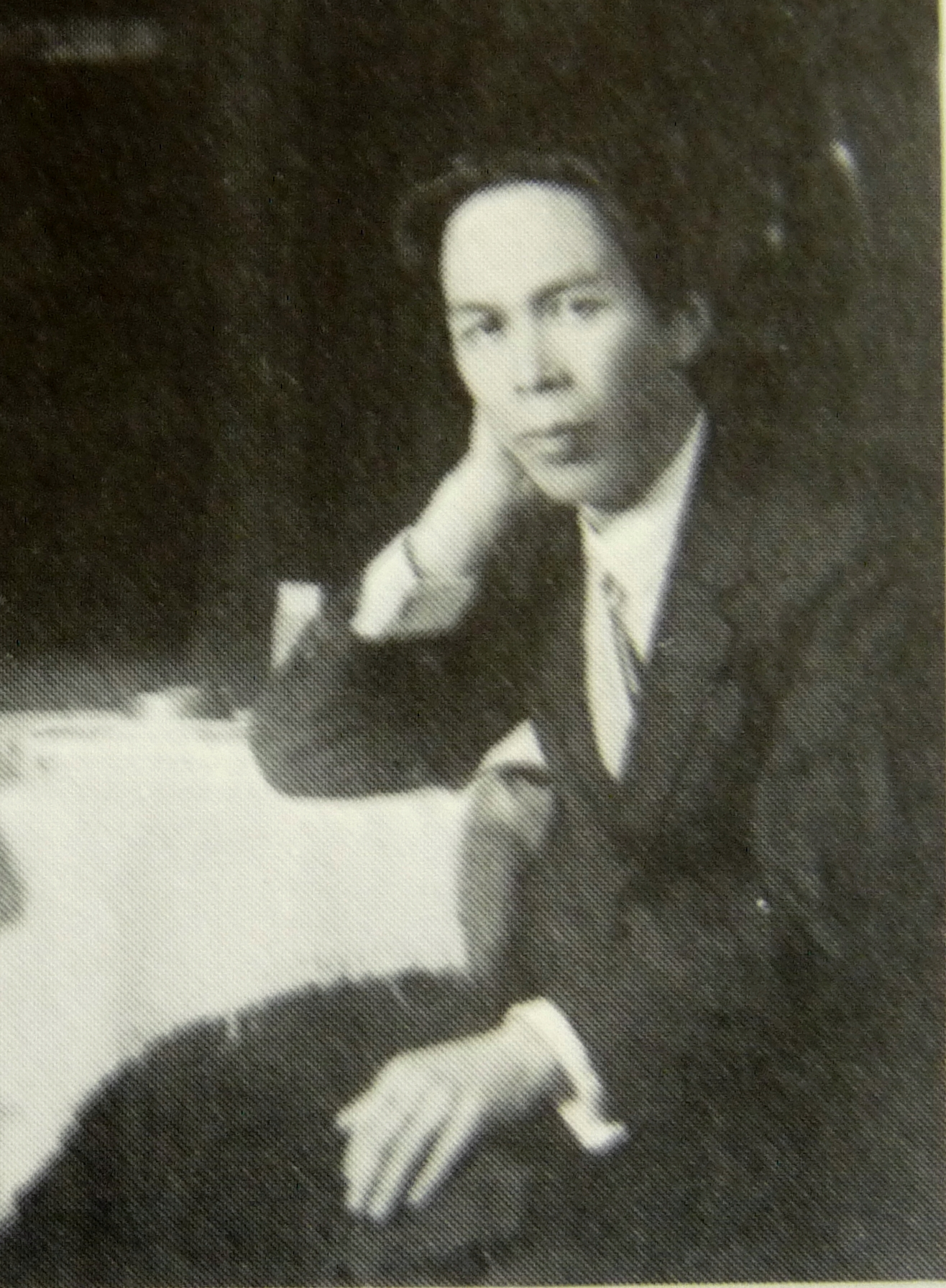 Kusuro Makimoto